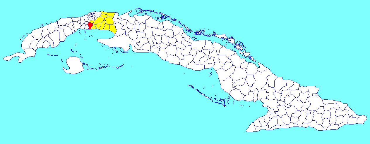 A map of the municipality of Quivicán (shown in red) within the Province of Mayabeque (yellow) and Cuba.